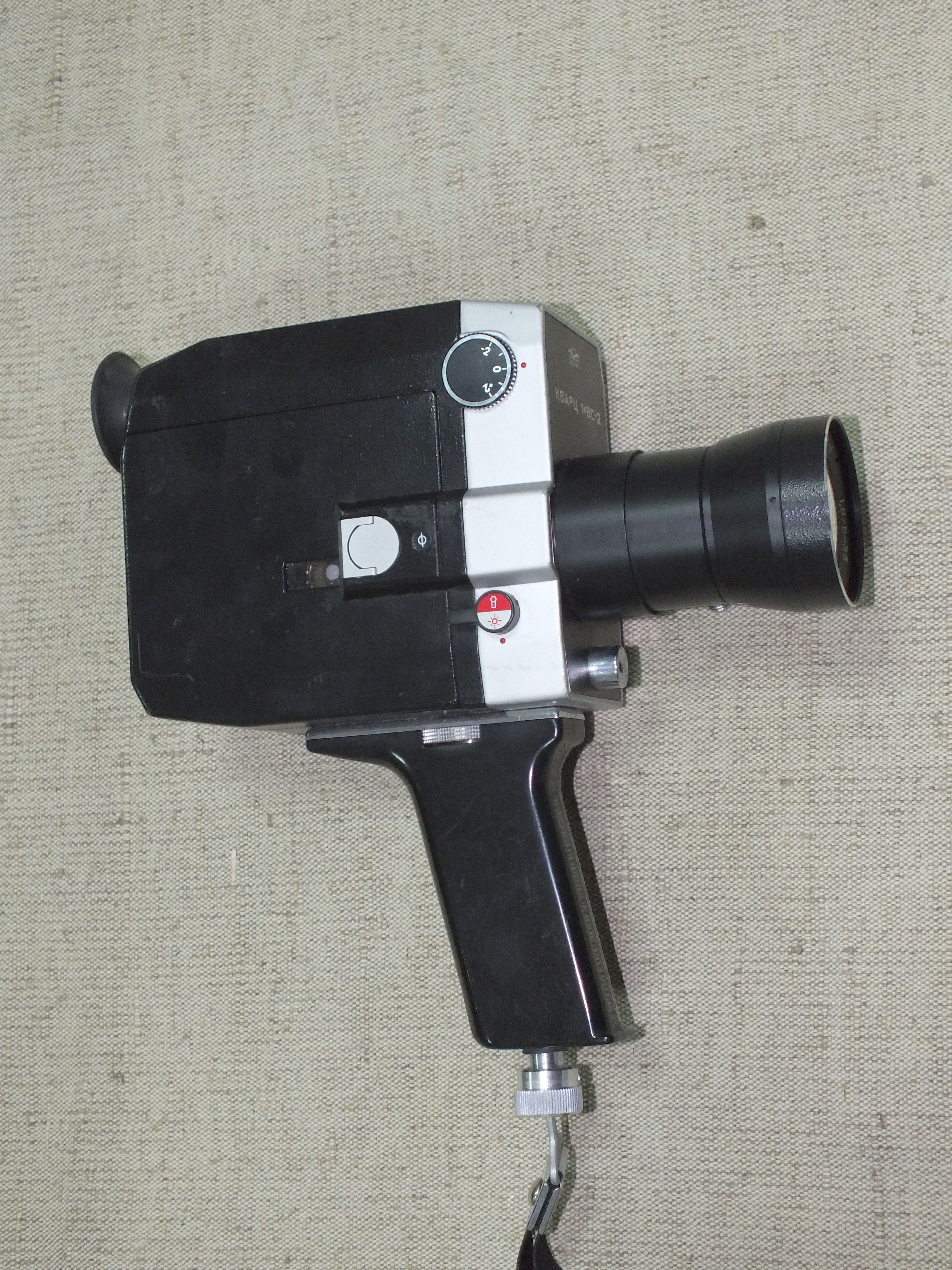 Quartz 1x8S-2